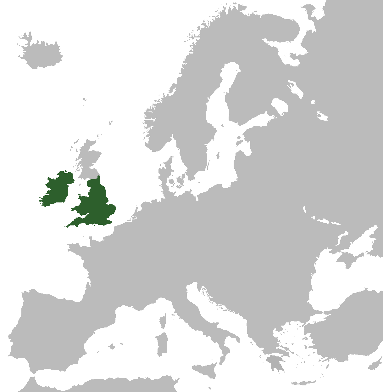 Map of the Commonwealth of England between 1649 to 1653.